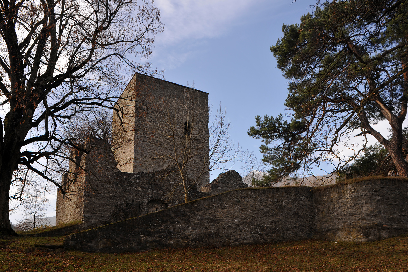 Ruins of the Tellenburg south of Frutigen; Bern, Switzerland.